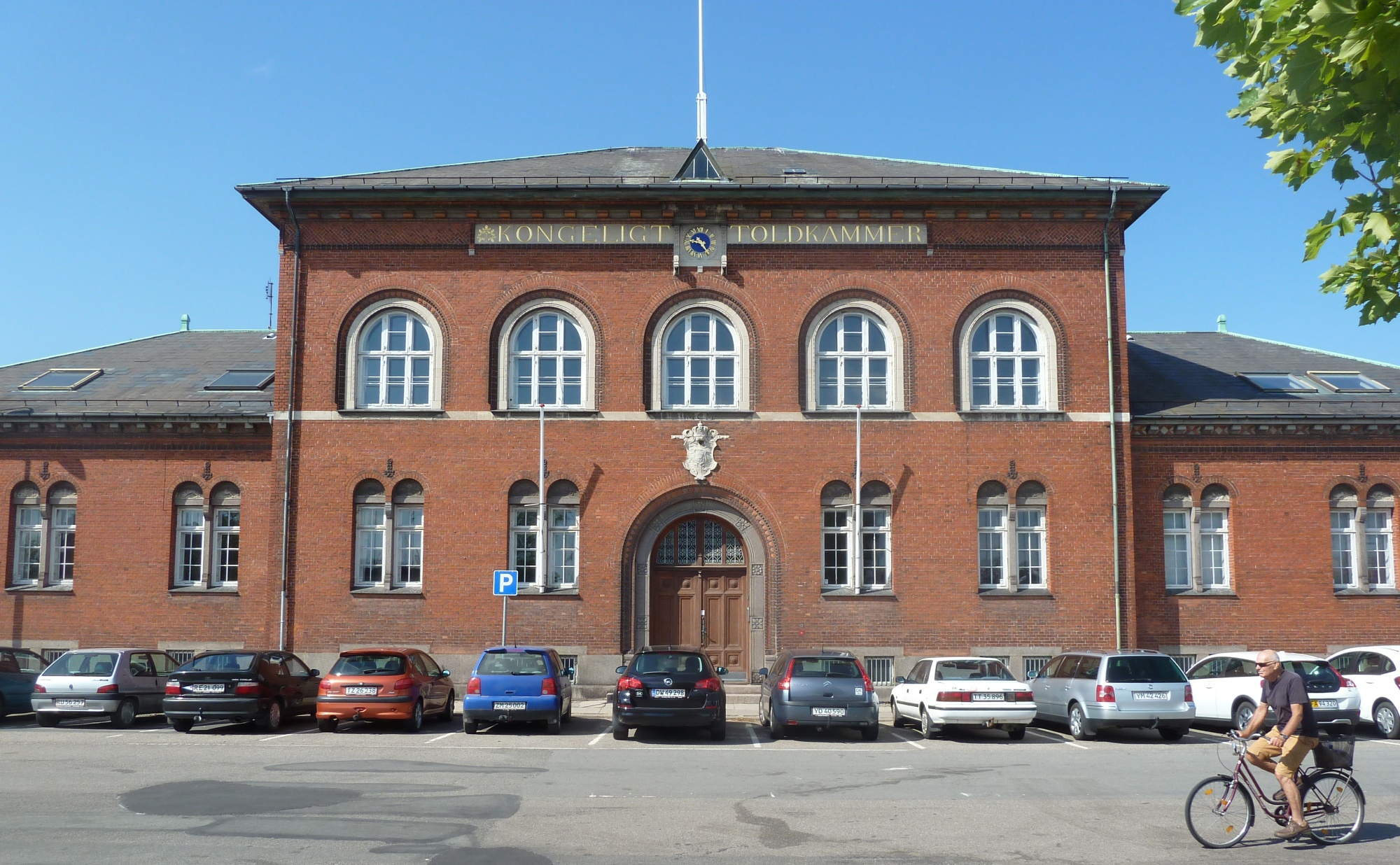 Toldkammer in Svendborg, southern Funen, Denmark